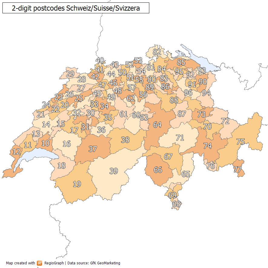 2-digit postcode areas Switzerland (defined through the first two postcode digits).